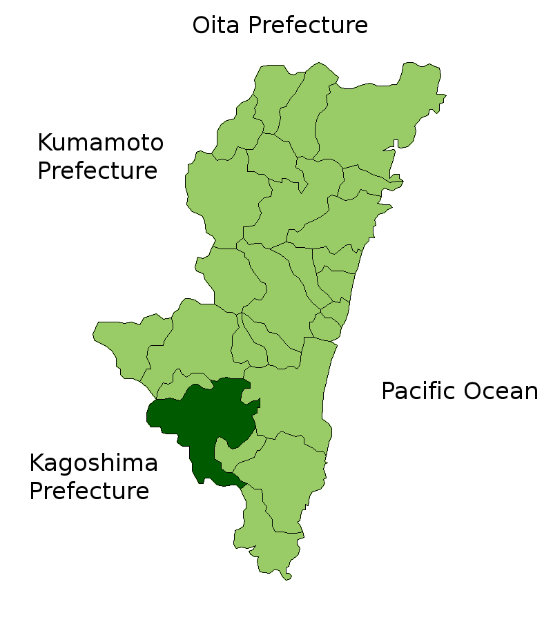 Location Map of Miyakonojo in Miyazaki Prefecture, Japan